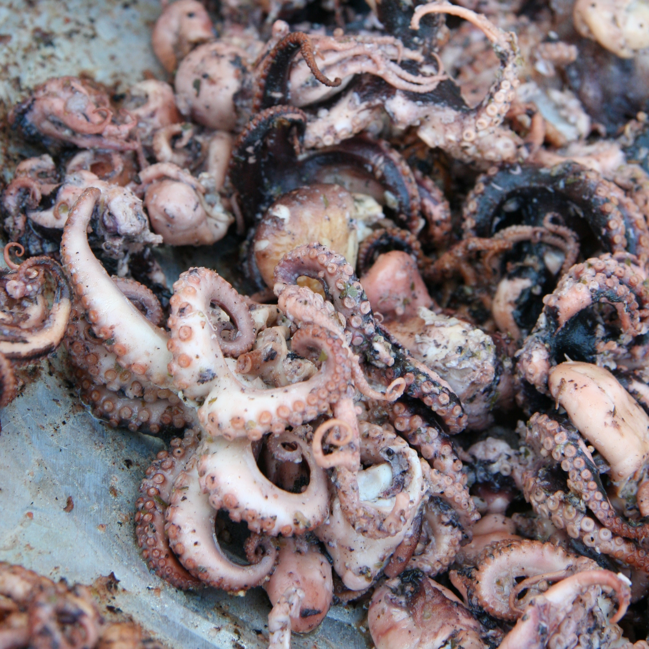 Grilled octopus offered for sale at the Greek Festival in Rochester, Minnesota